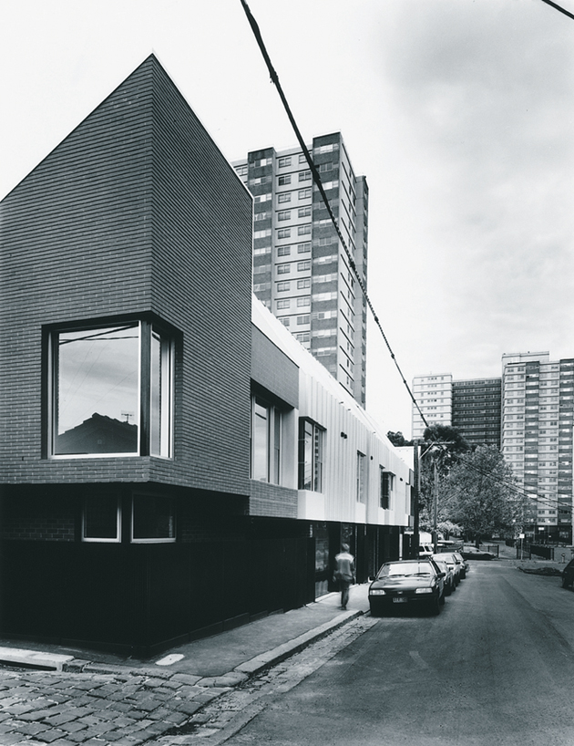 Napier Street Housing photo by Patrick Bingham-Hall